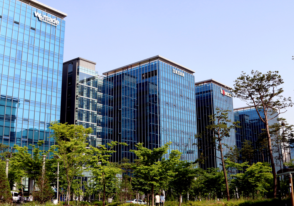 DASAN Tower